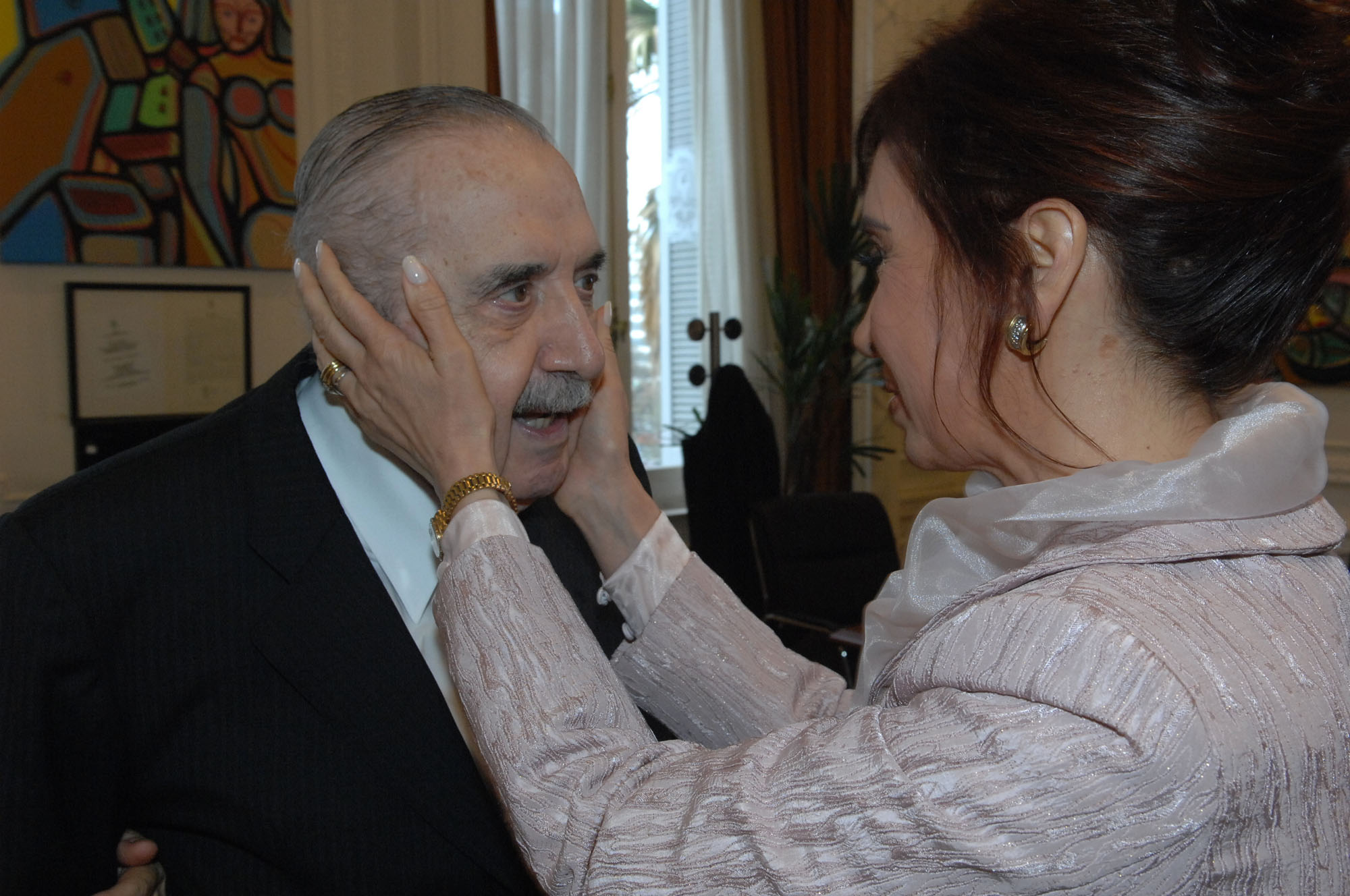 Former President of Argentina Raúl Alfonsín being greeted warmly by then president Cristina Fernández, during a ceremony in his honour held in the Casa Rosada in 2008.